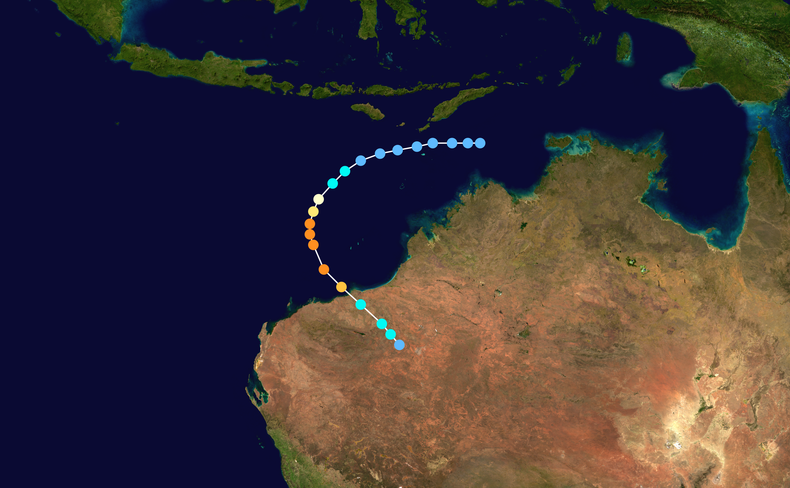 Cyclone Gwenda (1999) track. Uses the color scheme from the Saffir-Simpson Hurricane Scale.